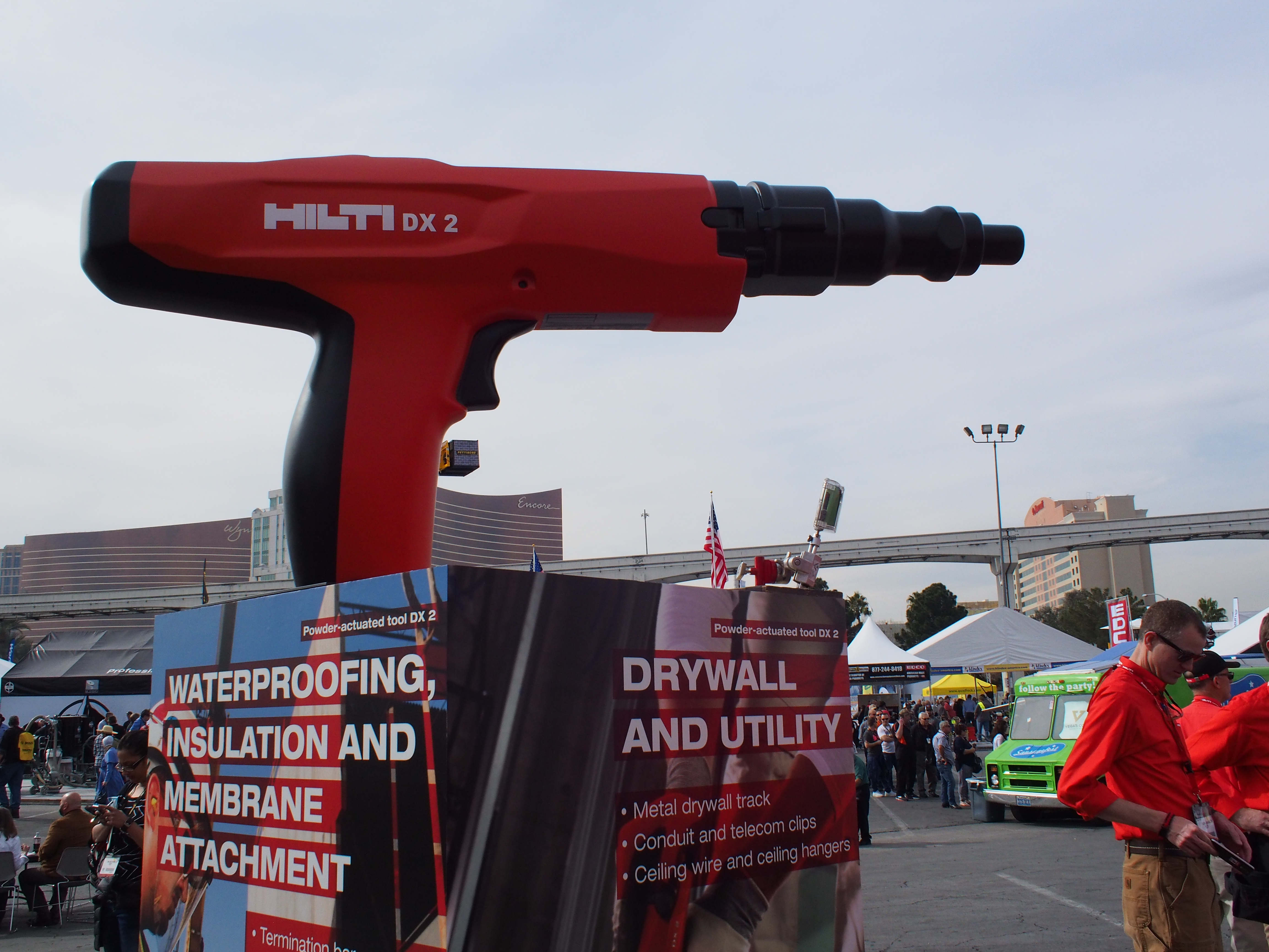 Photos from the World of Concrete trade show in Las Vegas Nevada. and .